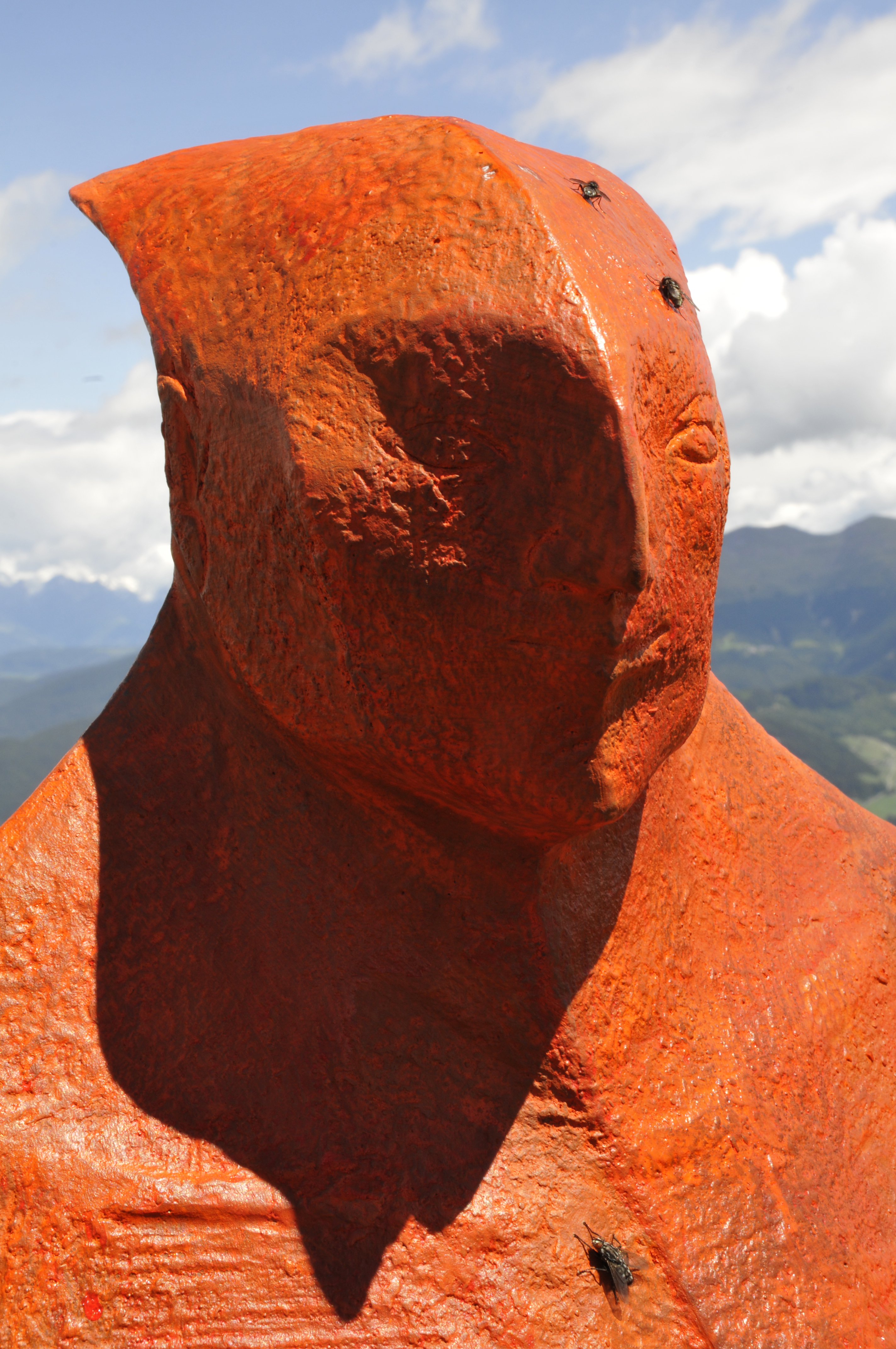 Wilhelm Senoner sculptor in Val Gardena, bronze statue on the Resciesa "Im Duft des Windes"- "Nel Profumo del vento"